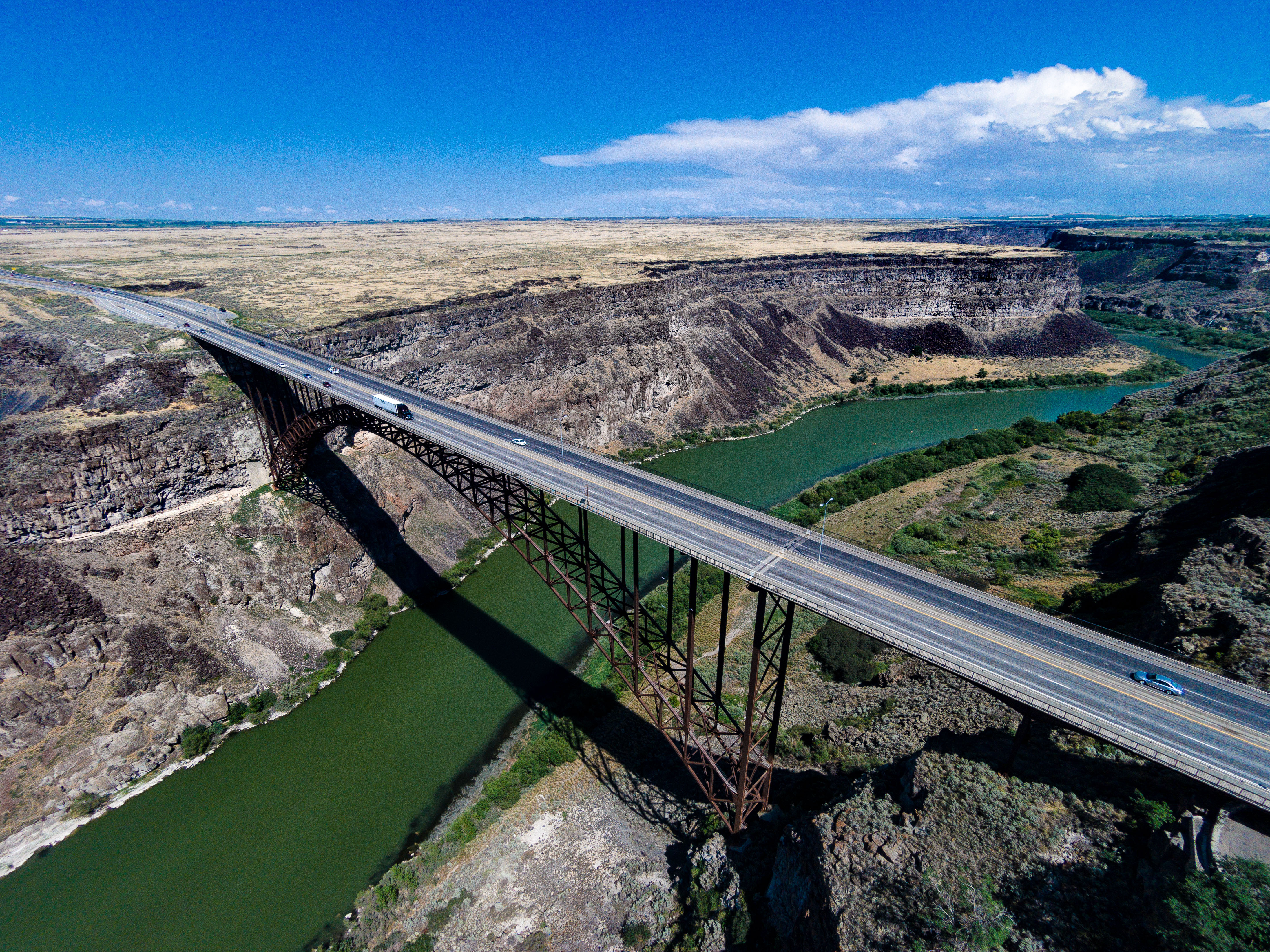 Perrine Bridge in Twin Falls, ID from 250' in the air.